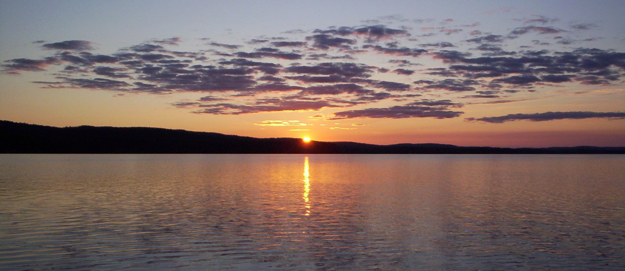 Lac Devenyns at sunset